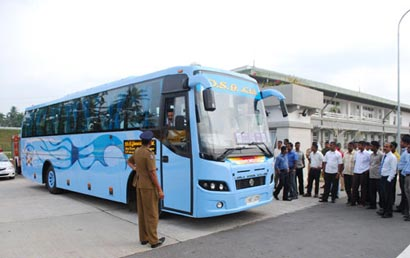 Luxury bus for sri lanka highway